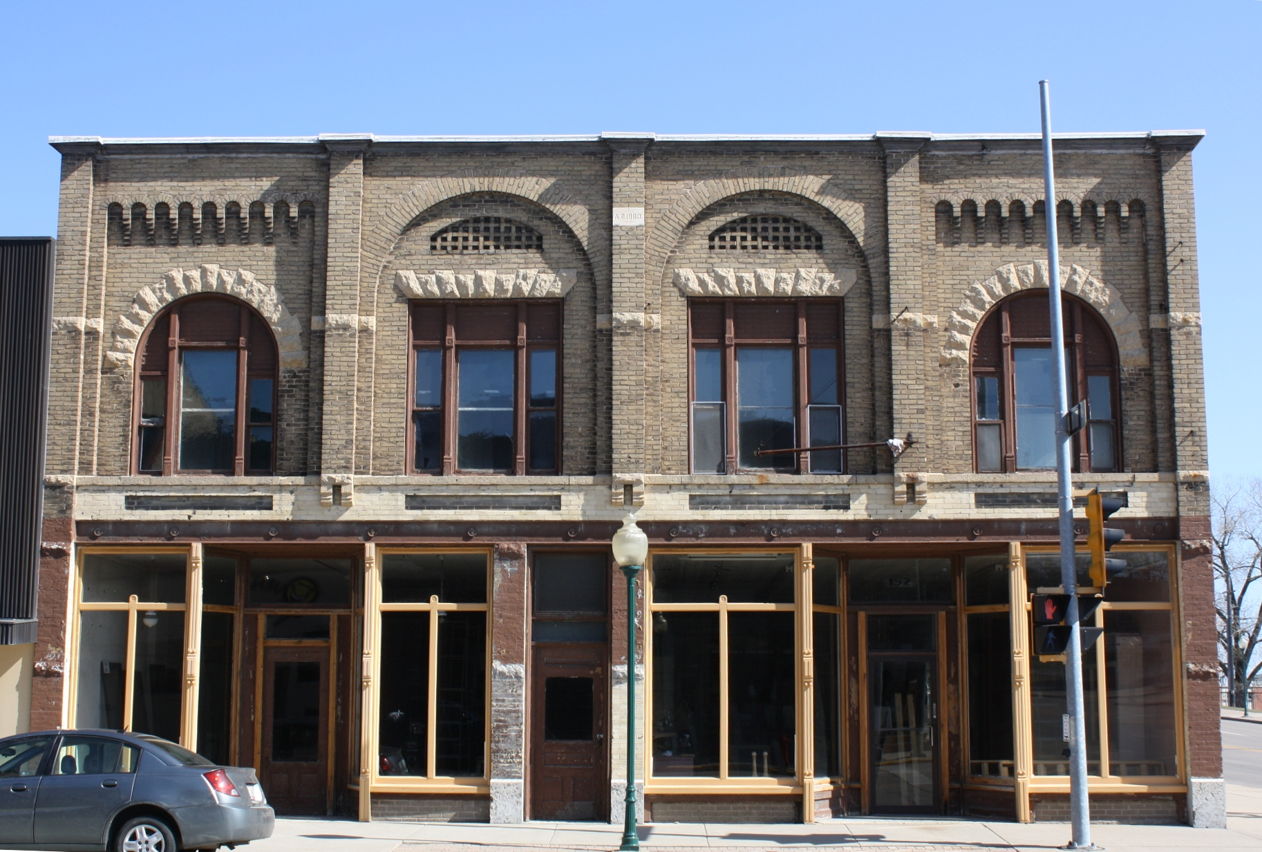 The Kuehn Blacksmith Shop-Hardware Store in Kaukauna, Wisconsin, listed on the National Register of Historic Places.